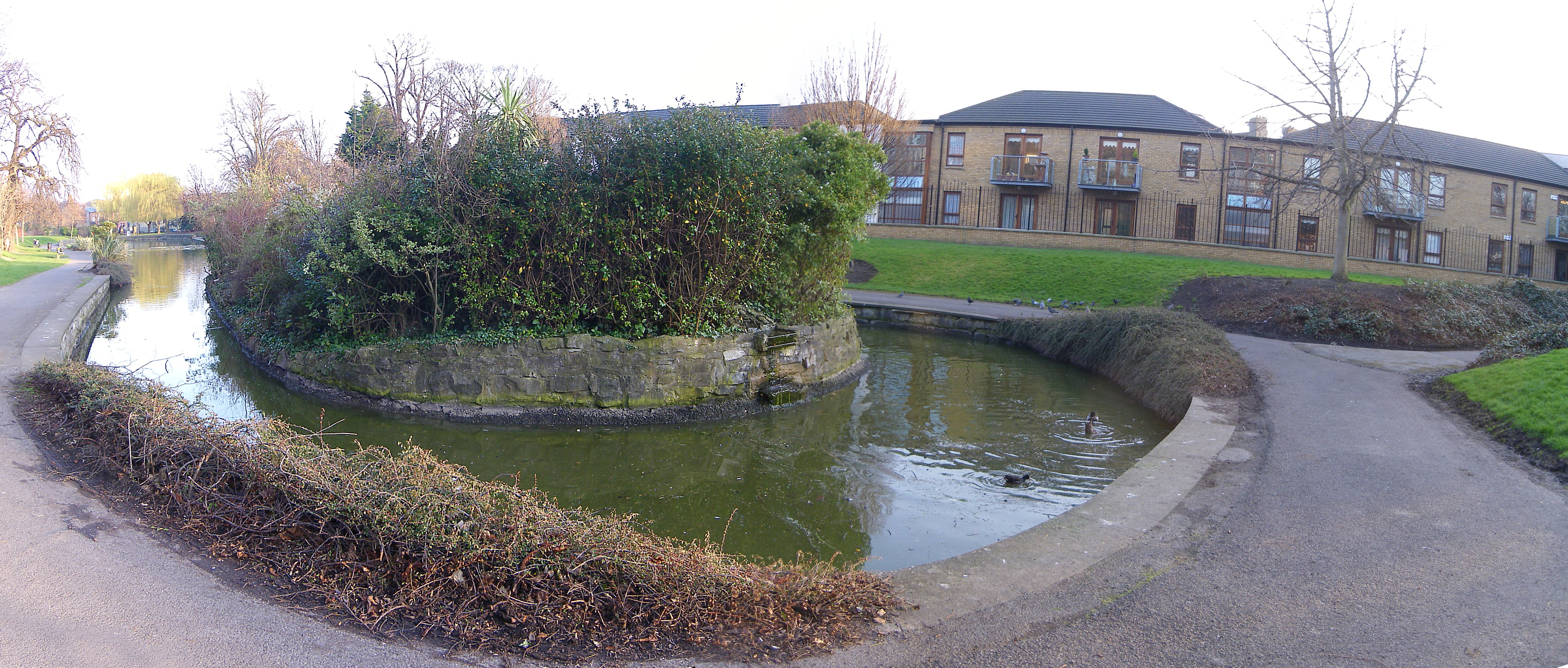 Ranelagh Gardens in Ranelagh, County Dublin